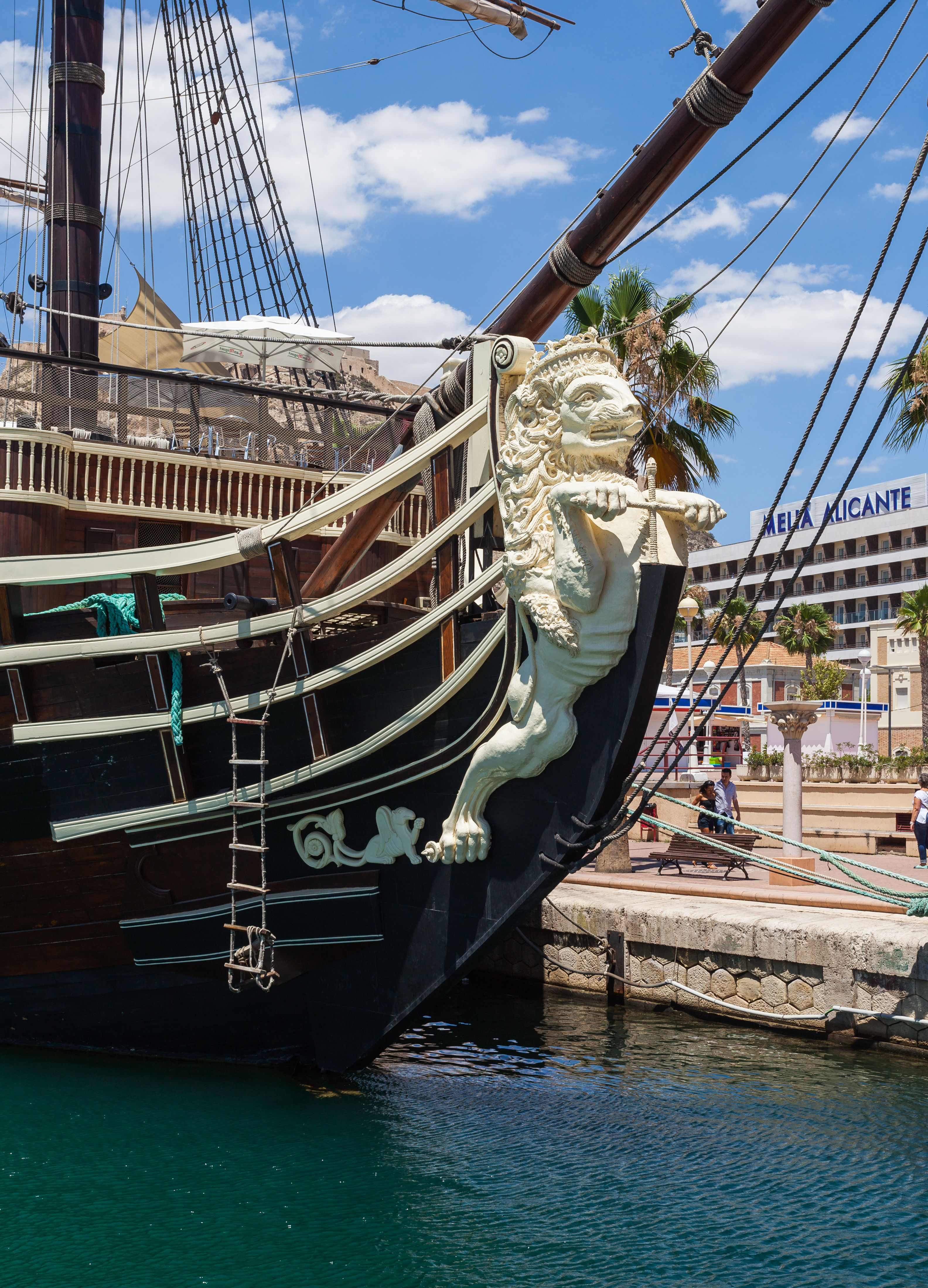 Santísima Trinidad galleon, port of Alicante, Spain